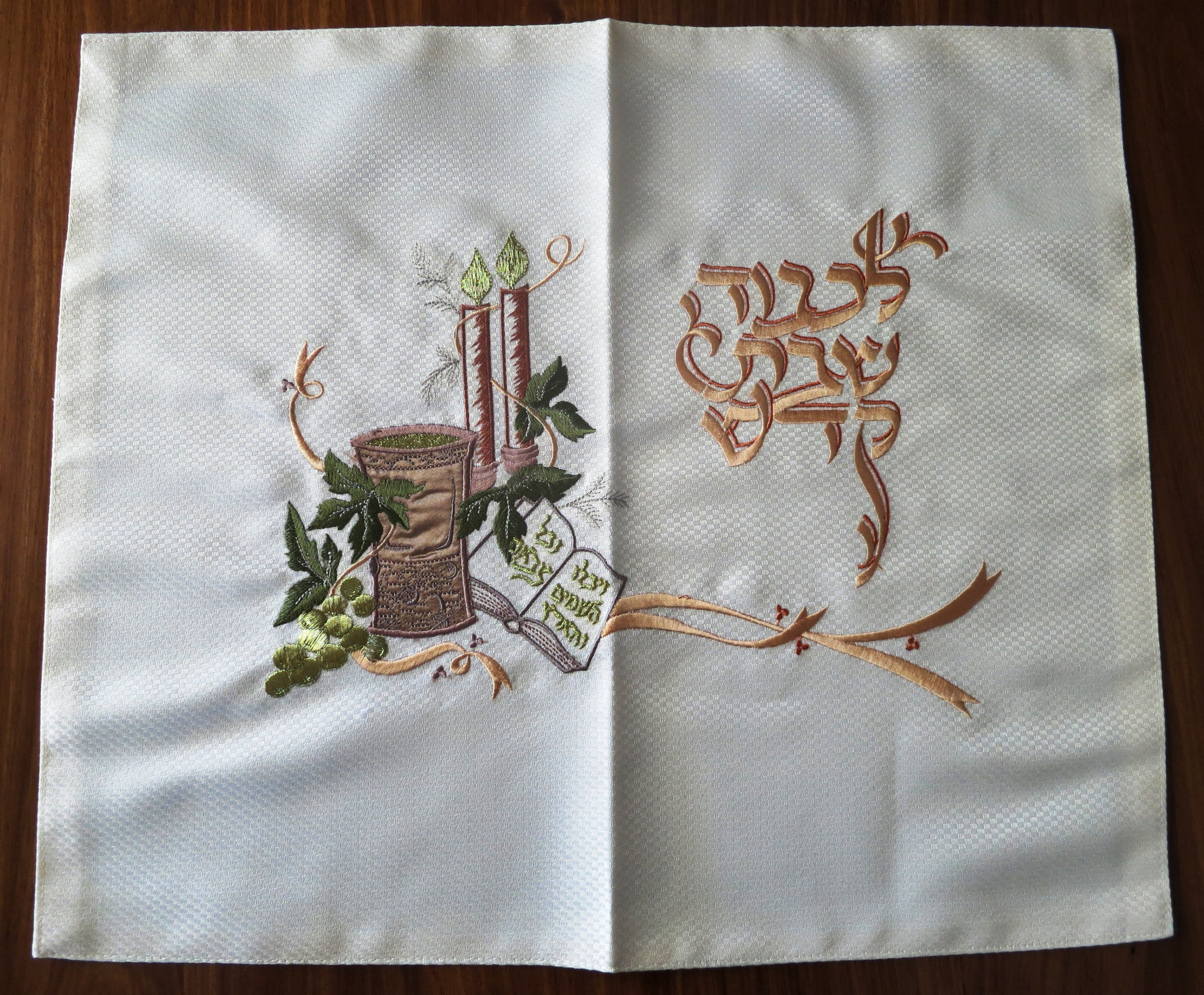 Cover for challah (Jewish bread)